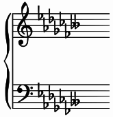 Des-moll/Fes-dur accidentals